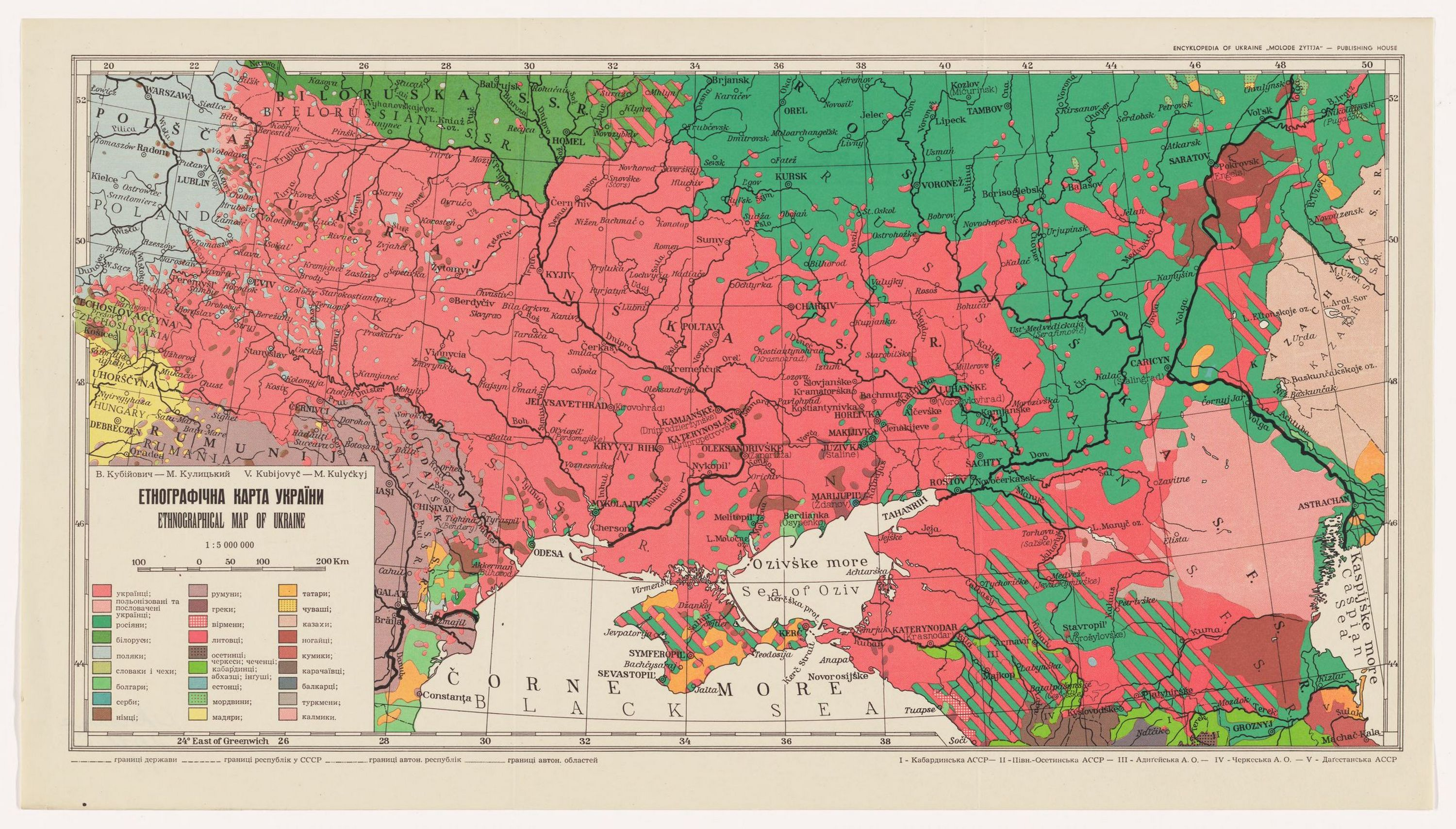 Ethnographic map of Ukraine of the early 20th century, published after 1945, showing the habitat of ethnic Ukrainians. - Pink colour - Ukrainians - Green colour - Belarusians - Purple colour - Romanians - Green-blue colour - Russians - Light blur colour - Poles - Yellow colour - Hungarians - Light pink colour - Kazakhs - Light brown colour - Slovaks